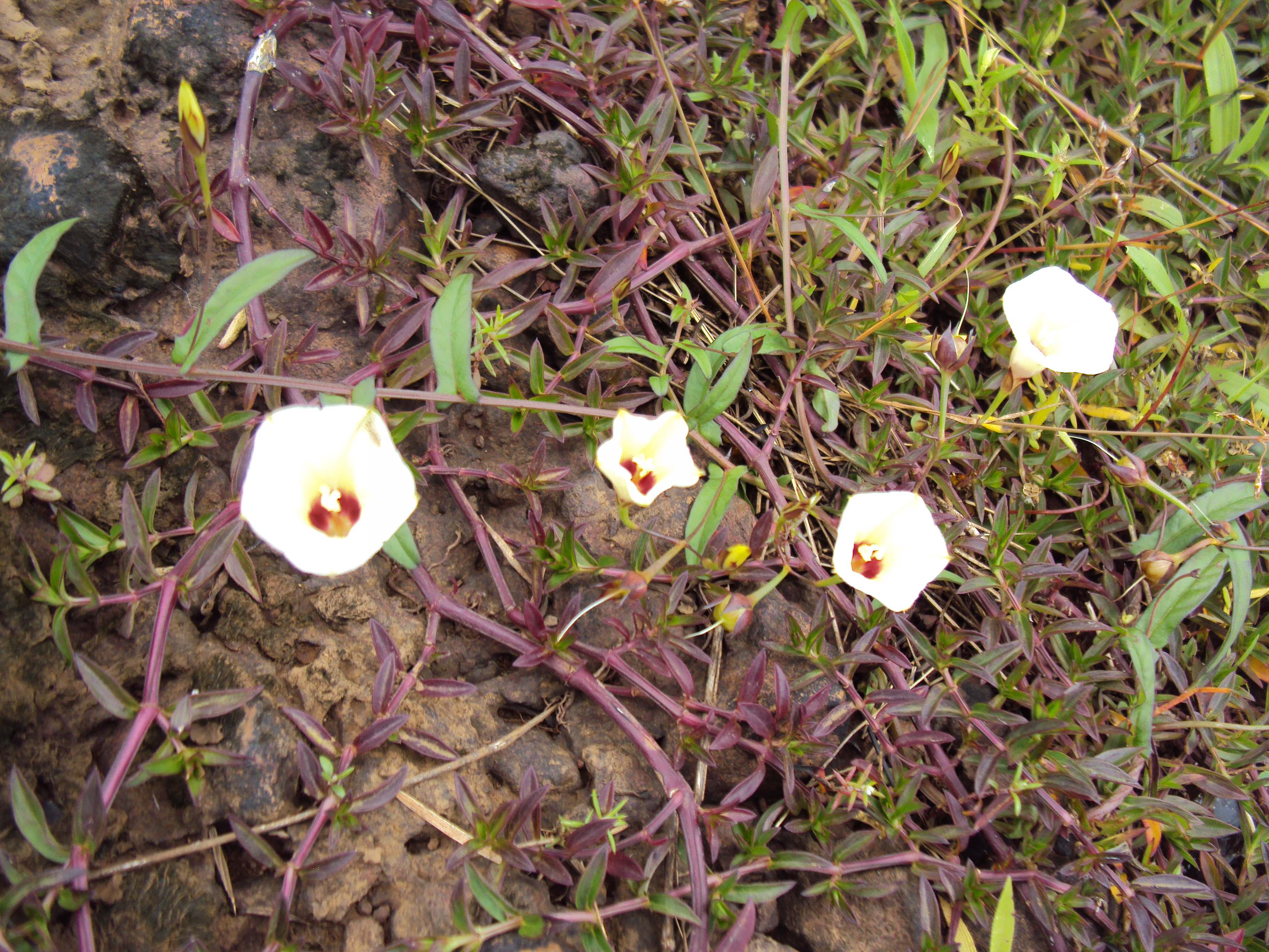 Xenostegia tridentata ssp.hastata